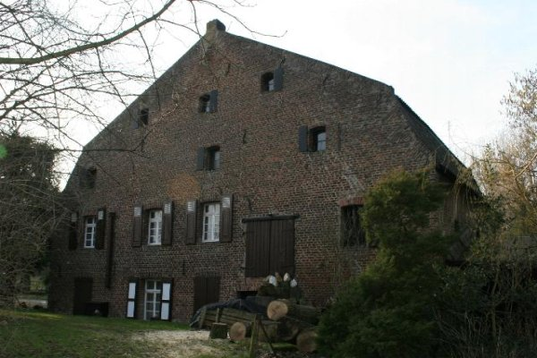 Cultural heritage monument No. 15 in Heinsberg